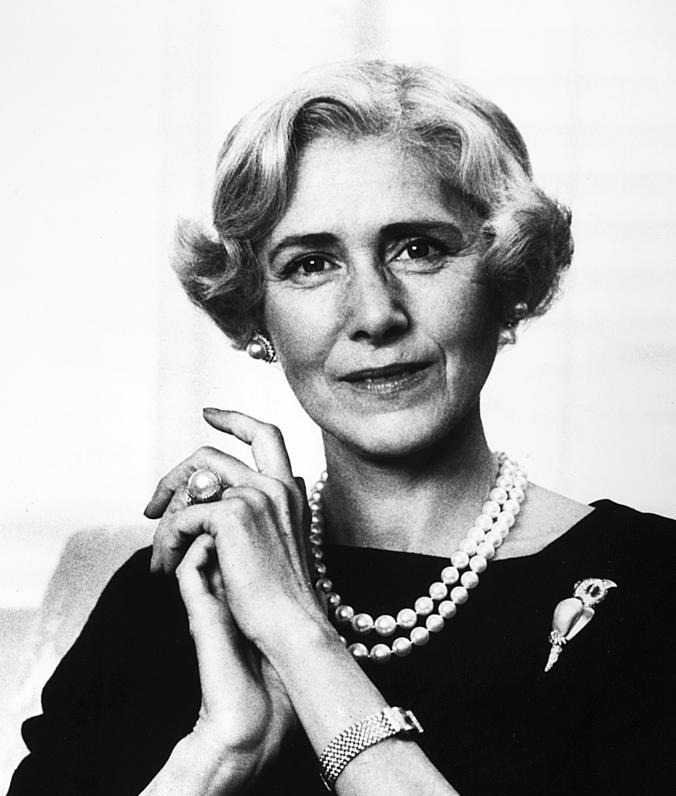 Clare Boothe Luce, American editor, playwright, social activist, politician, journalist, and diplomat. Portrait of Clare Boothe Luce